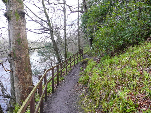 Path beside the River Ayr